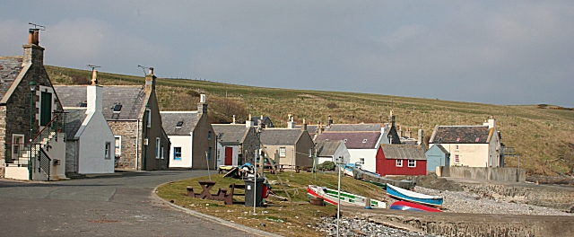 Cottages at Sandend, Aberdeenshire, all built with the gable end facing the sea